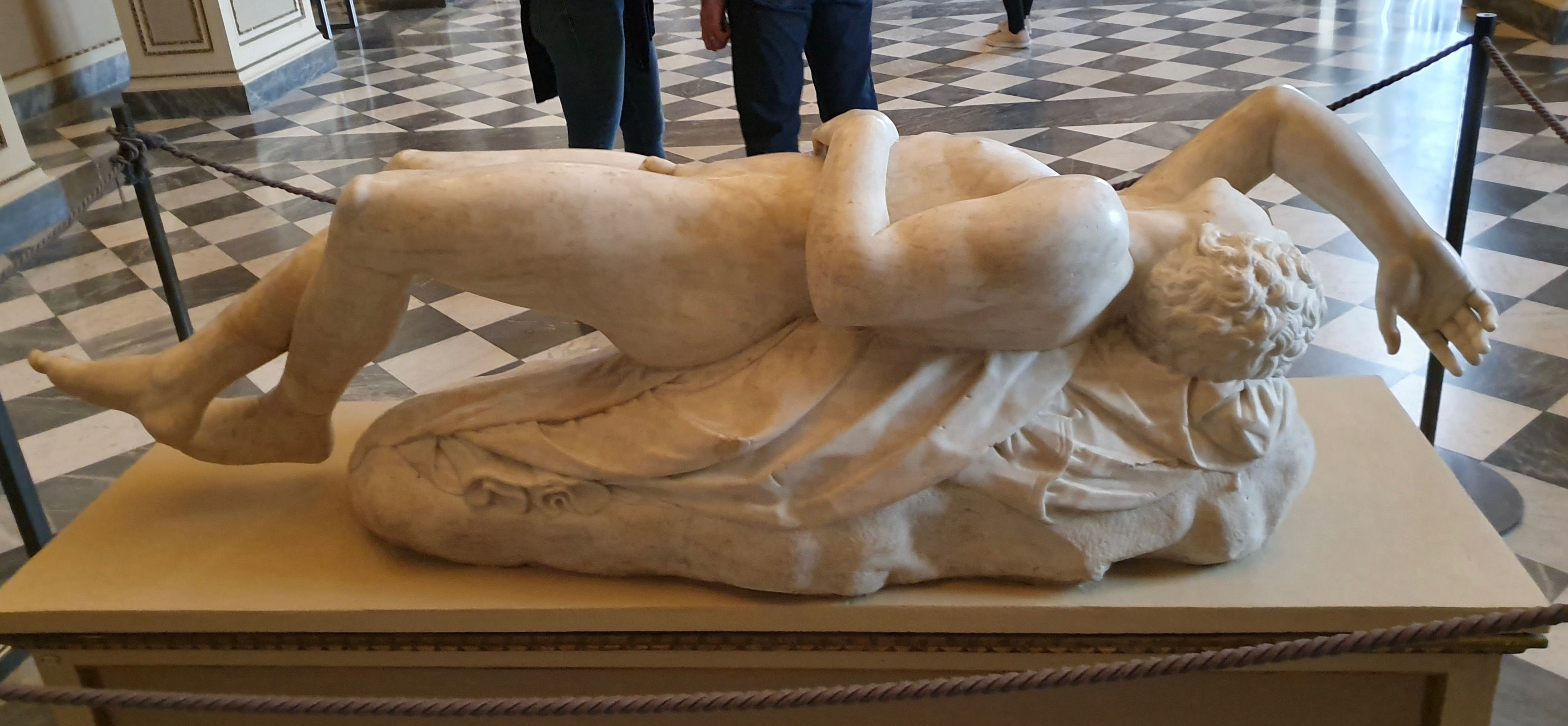 Dying Niobid-Uffizi